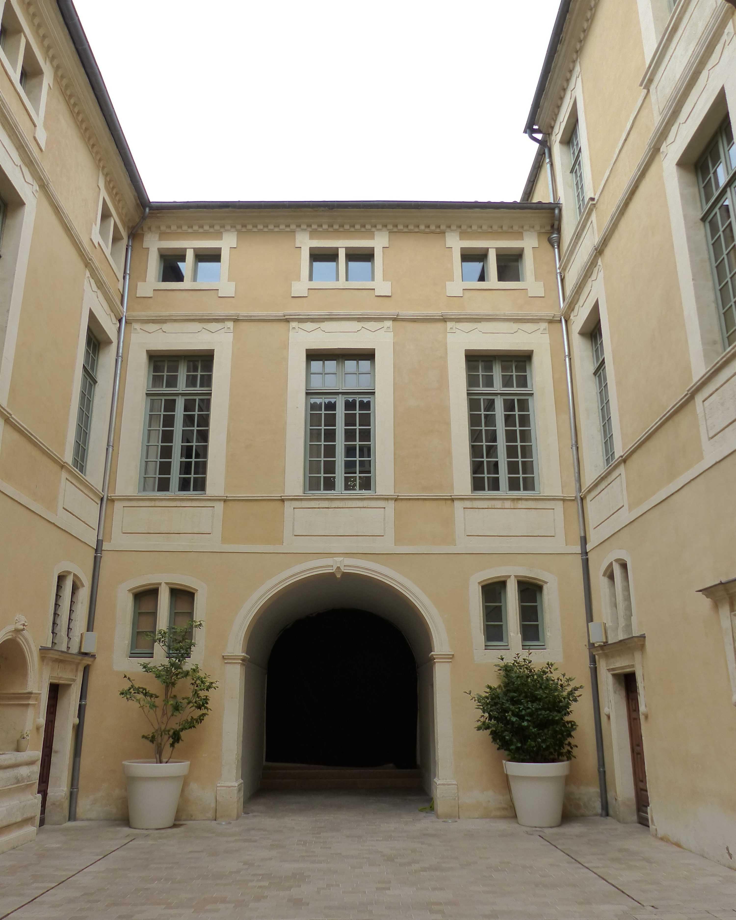 Nîmes (Gard, Languedoc, France), in the less known part of the Ecusson, historic center of the city, at 6 Fresque street (parallel to Victor Hugo boulevard), behind a sober facade redone in 1773, the merchant Leon Novi, back from Genoa, made in 1665 sumptuous arrangements inspired by Italian Baroque art.